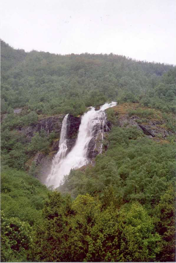 Brekkefossen